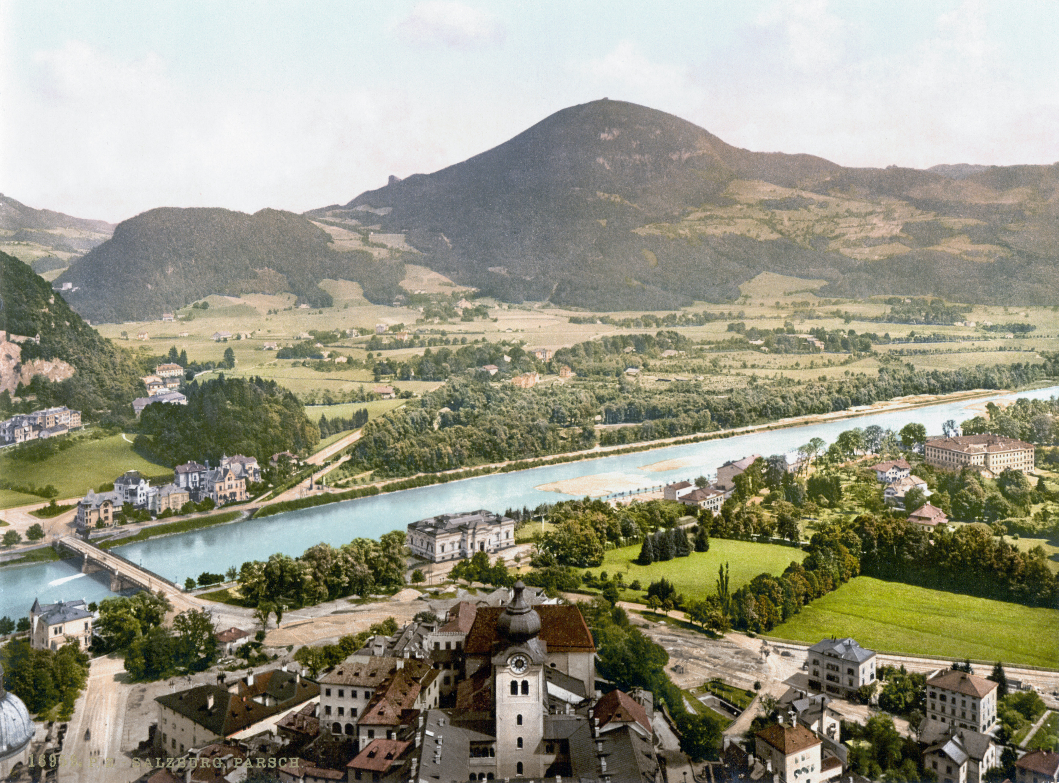 Salzburg around 1900. View over Salzach to east to Parsch. In the background Gaisberg (1287m) with (Nockstein 1042m). left Kühberg (883m), very left south slope of Kapuzinerbergs (636m)